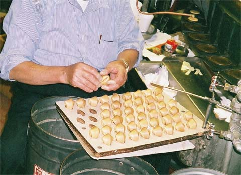 Photo of man folding fortune cookies at Golden Gate Fortune Cookie Factory in San Francisco.